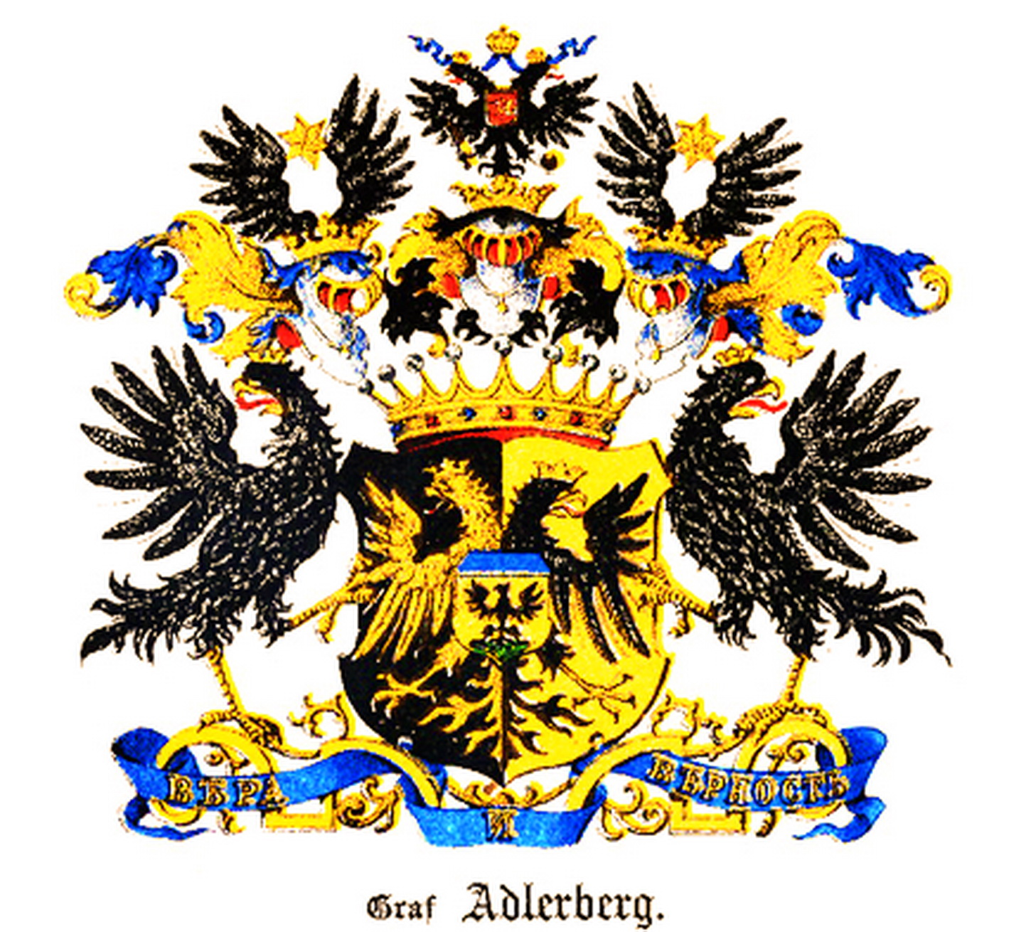 Coat of Arms of count´s family Adlerberg, awarded 1847.